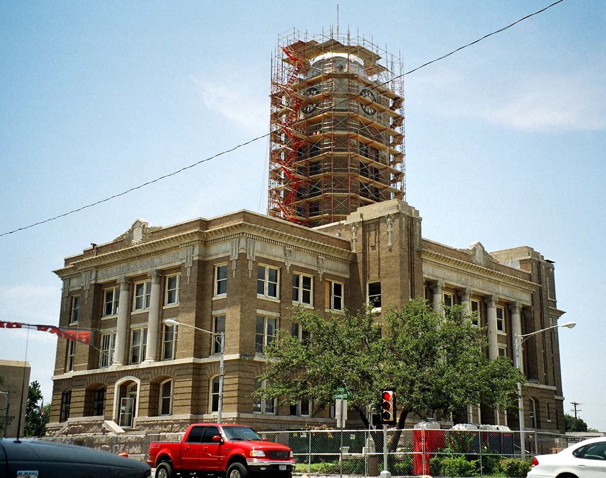 The Johnson County, Texas courthouse located in Cleburne, Texas, United States. It was listed on the National Register of Historic Places in 1988.